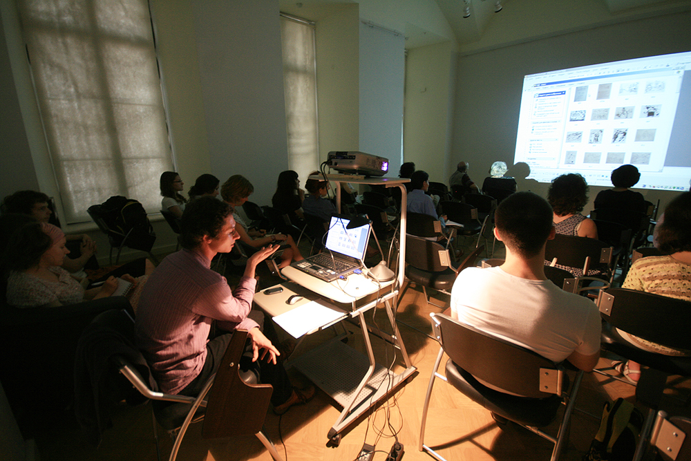 Занятие М. Балана. Французский клуб